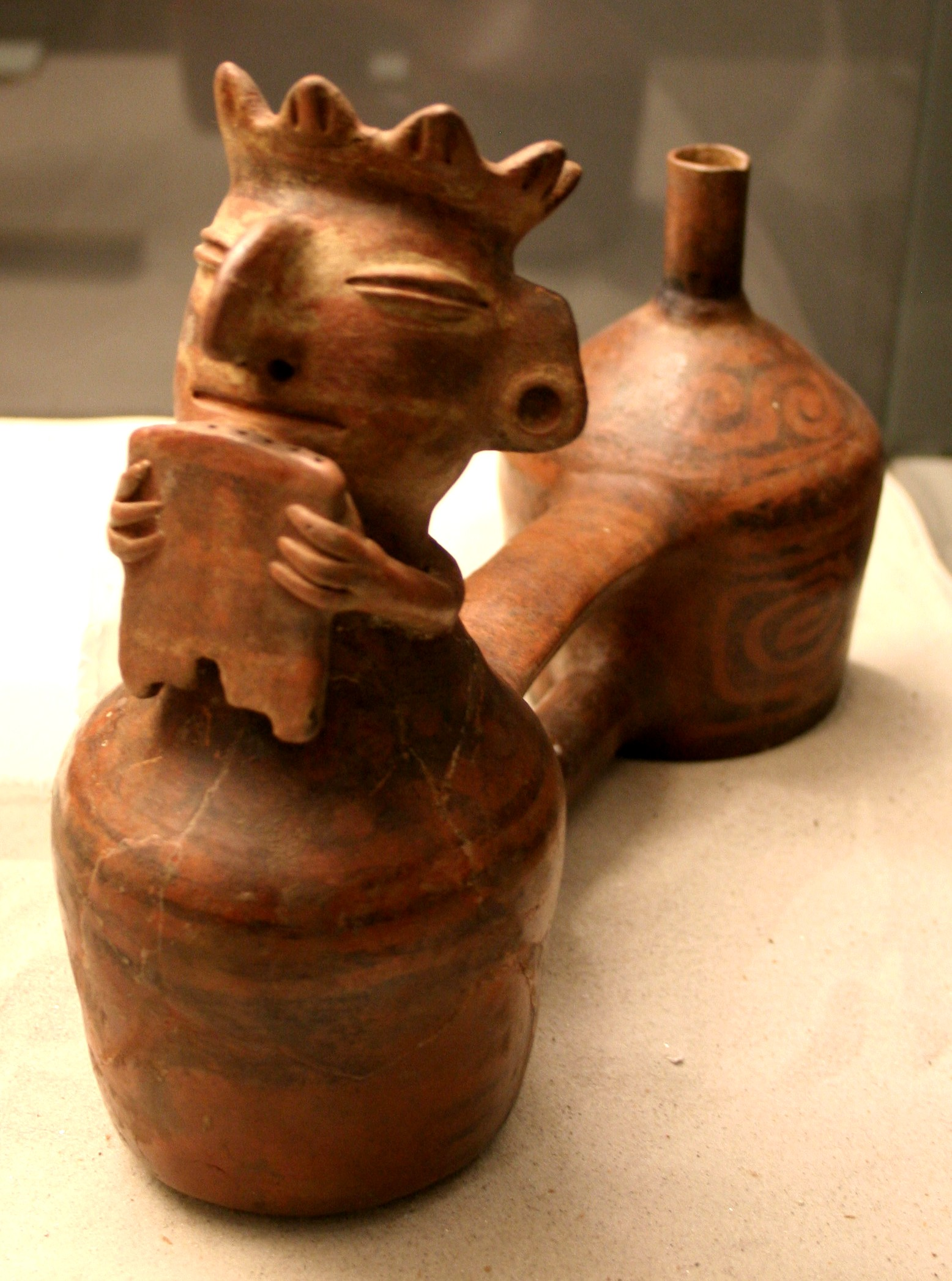 Roemer- und Pelizaeusmuseum, Hildesheim